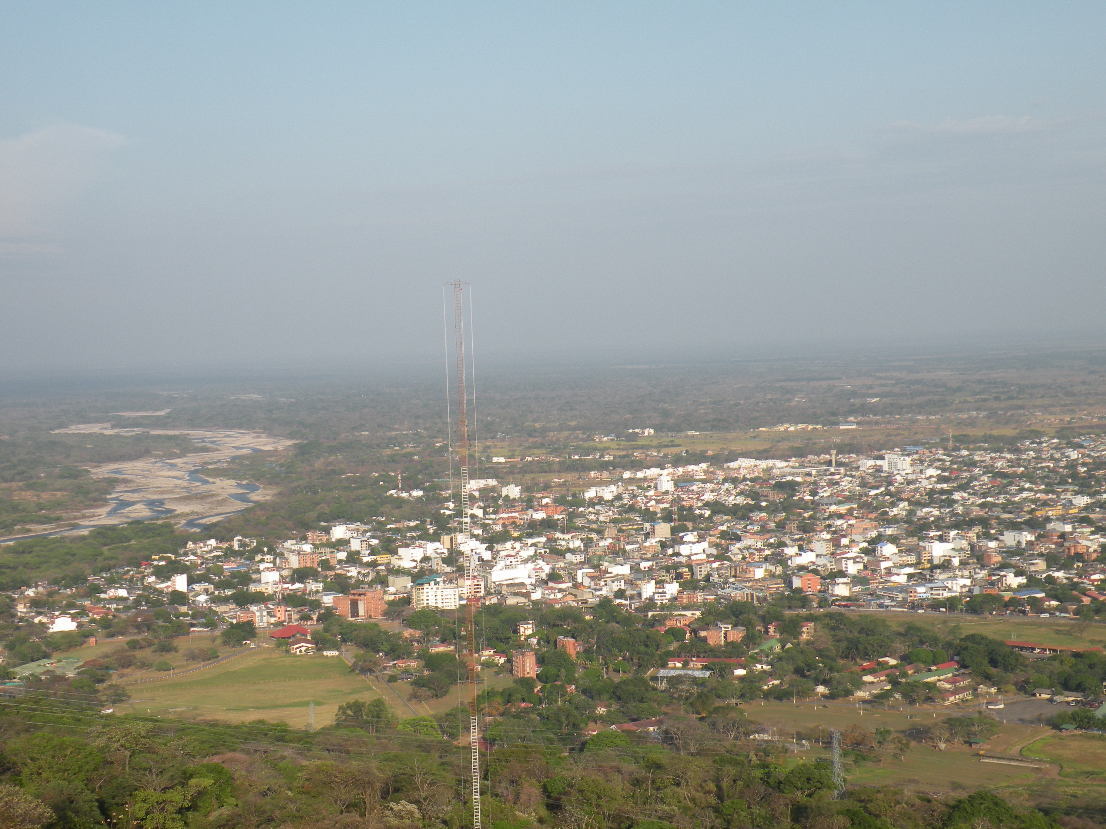 Panoramica de Yopal